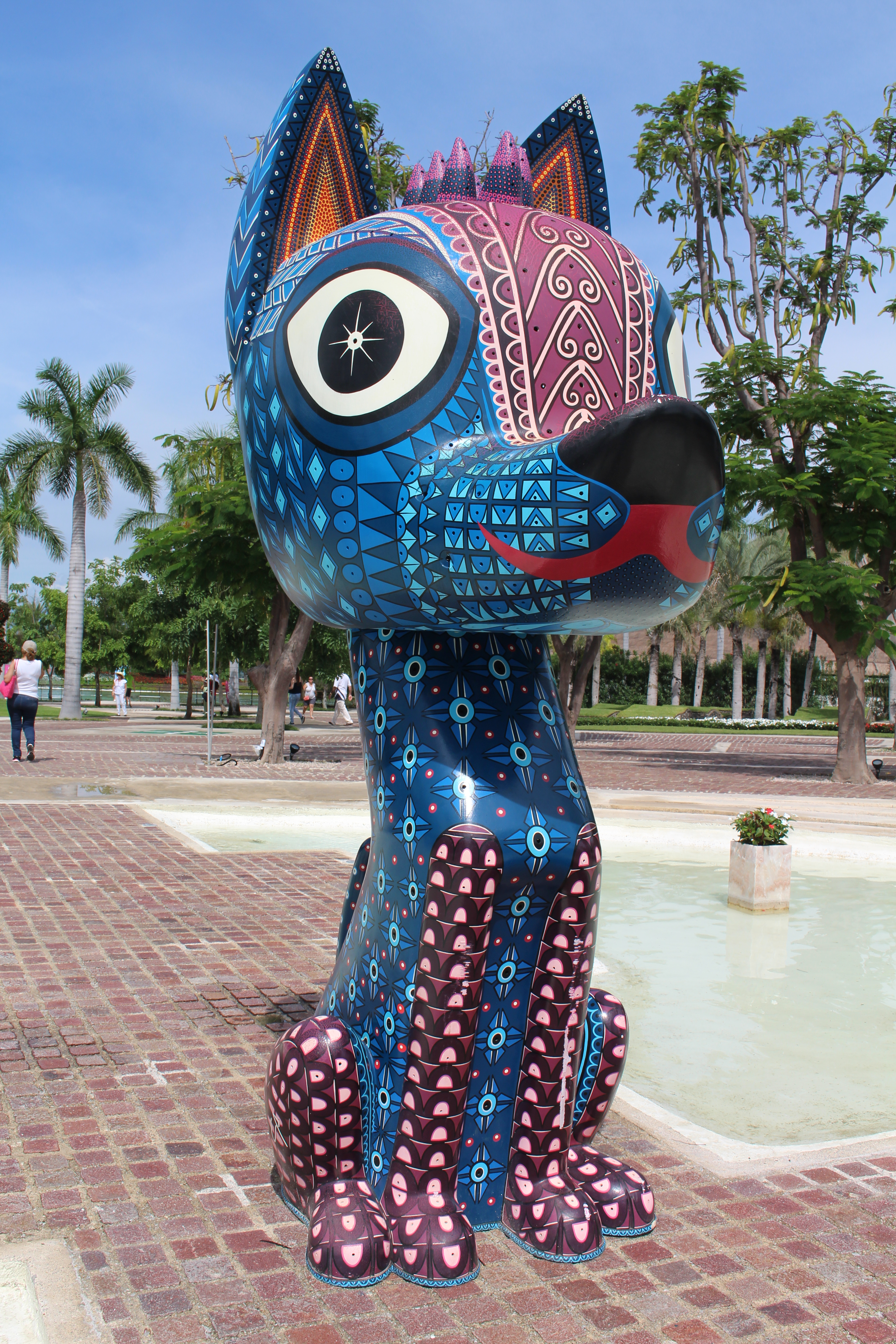 Xico, partner of dreams and crossings. Inspired in the Xoloitzcuintle from the aztec mythology, which guided people to overcome the obstacles and reach their final destiny. Placed on the Jardines de México, in the state of Morelos.